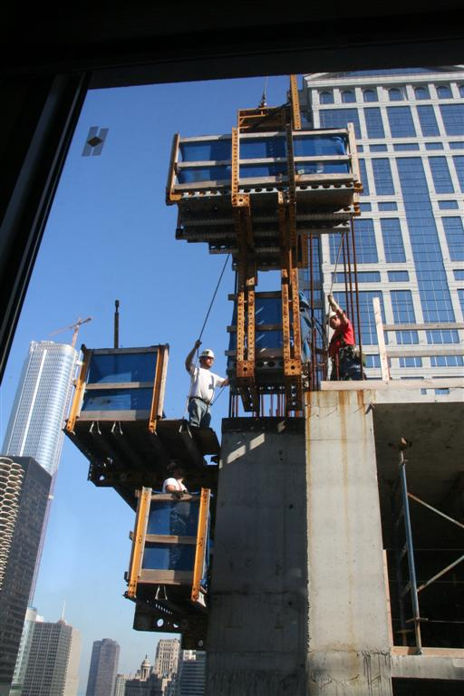 Workers remove slip forming from Waterview Towers in Chicago.